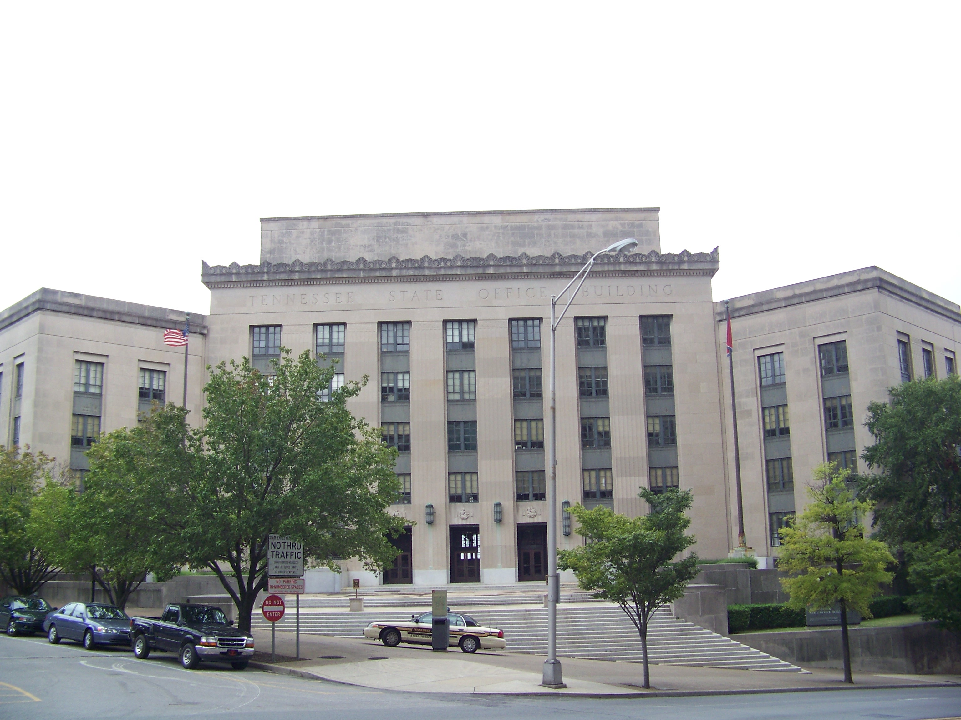 Tennessee State Office Building, 6th Ave., N.